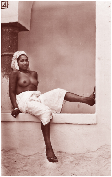 « Type de Mauresques – Farniente », Éd. La Cigogne, Alger n˚572 [doit provenir d’une série de clichés pris à Bousbir, quartier réservé de Casablanca]